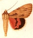 PLATE CXCVI.